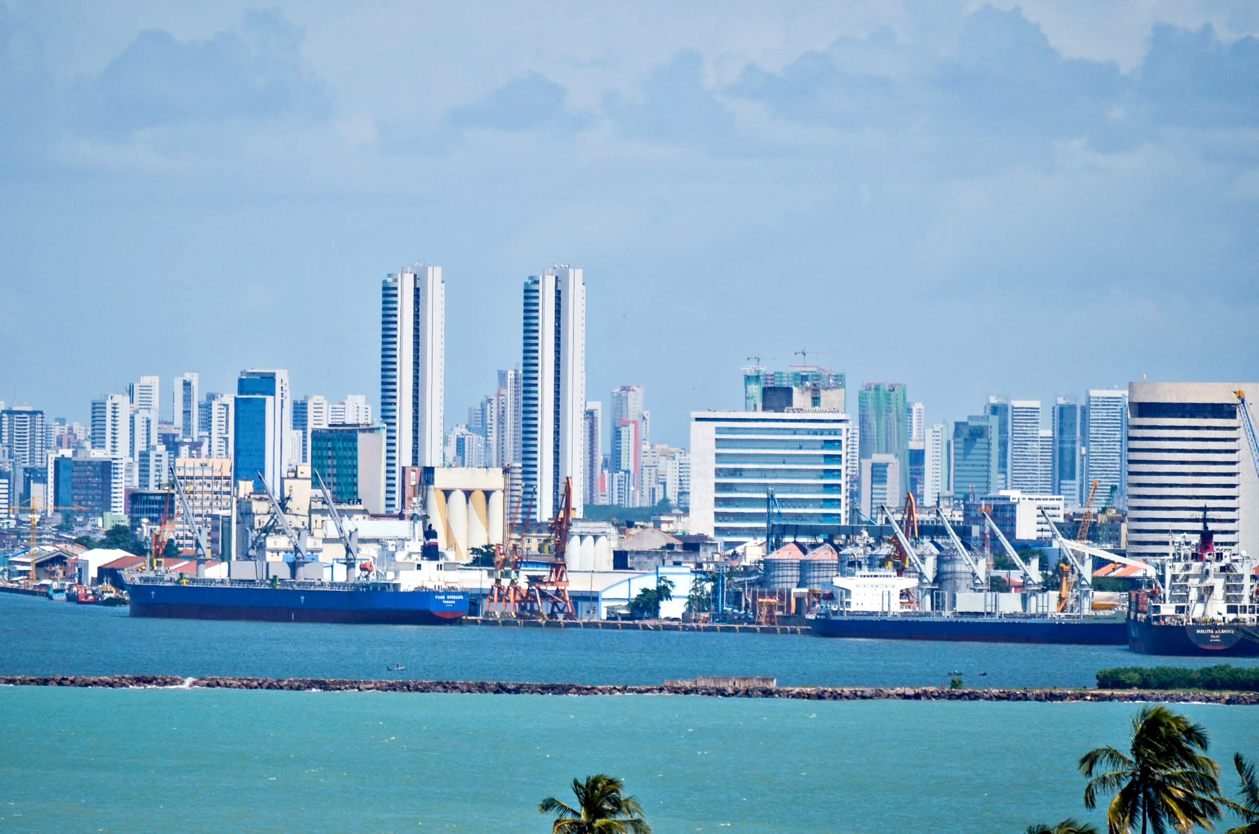 Recife Port - Recife - Pernambuco - Brazil